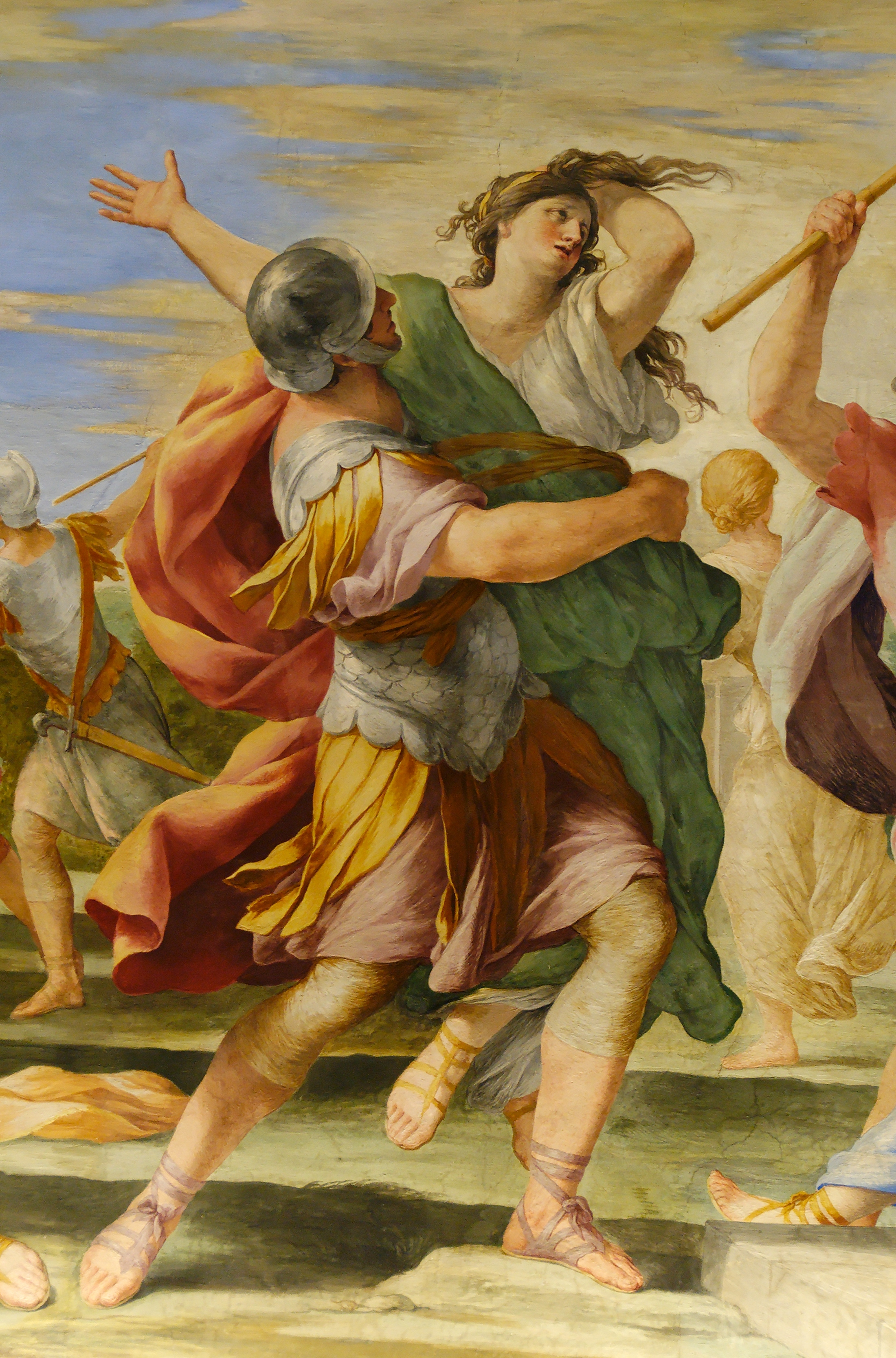 The Rape of the Sabine Women, detail, by Giovanni Francesco Romanelli (1612–1660). One of a series of ceiling frescoes about the feats performed by Roman warriors, 1655–1658. Queen's Cabinet, Sully wing, Louvre Palace.